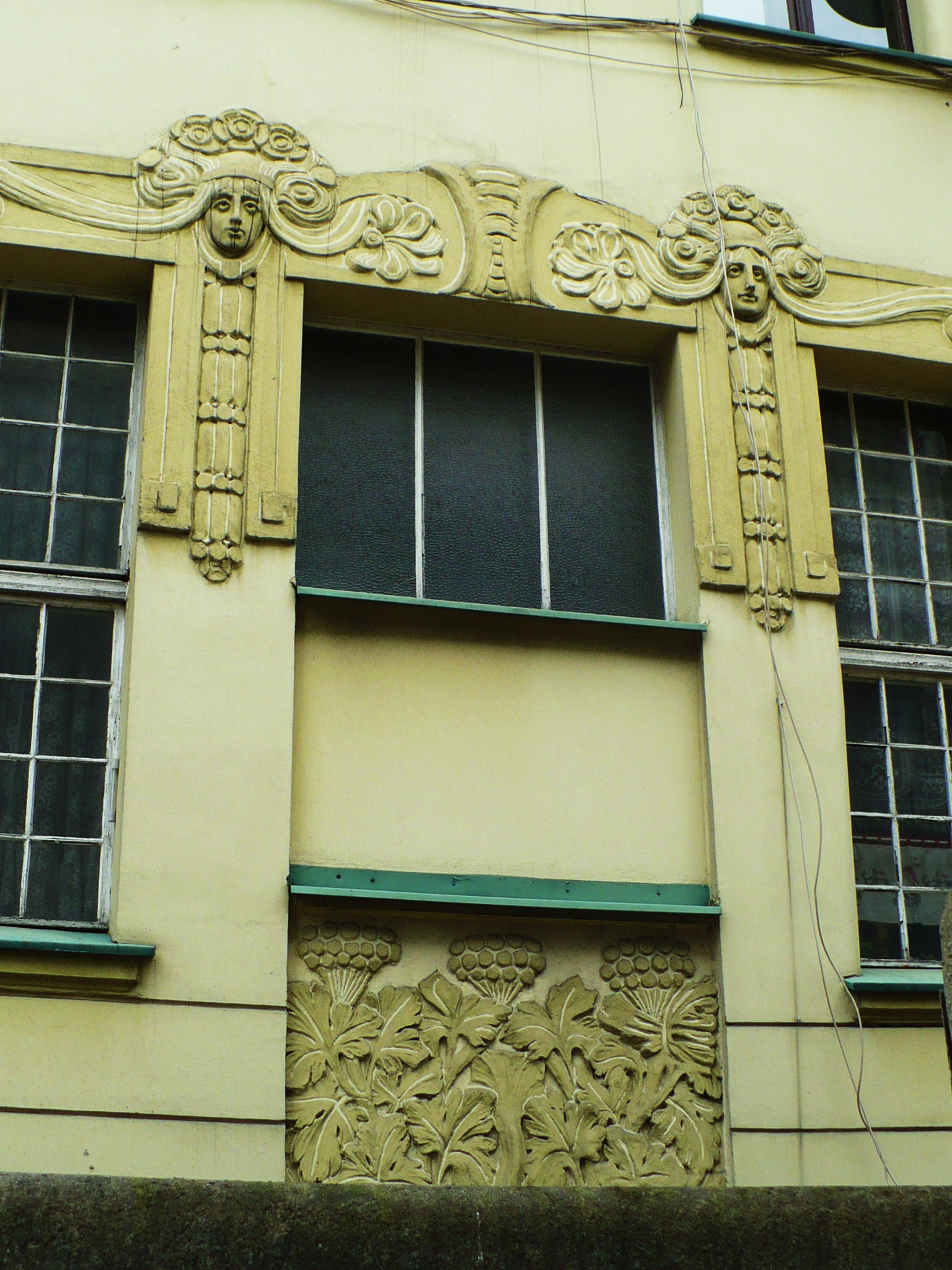 Art Nouveau reliefs at villa in Bydgoszcz